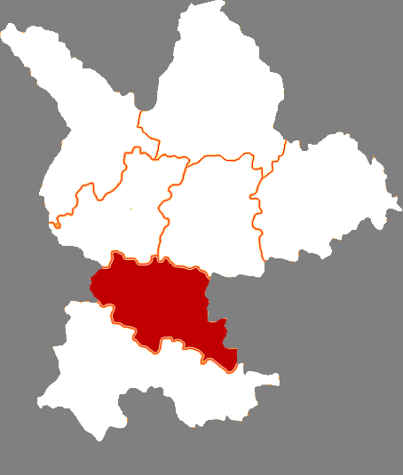 Location of Zhang county in Dingxi city, China